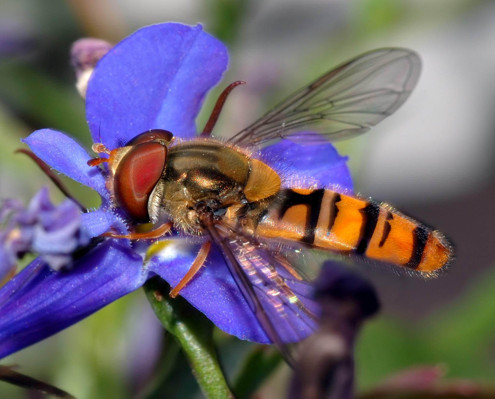 This image shows a 12 mm large hoverfly called marmelade fly (Episyrphus balteatus) from the side.